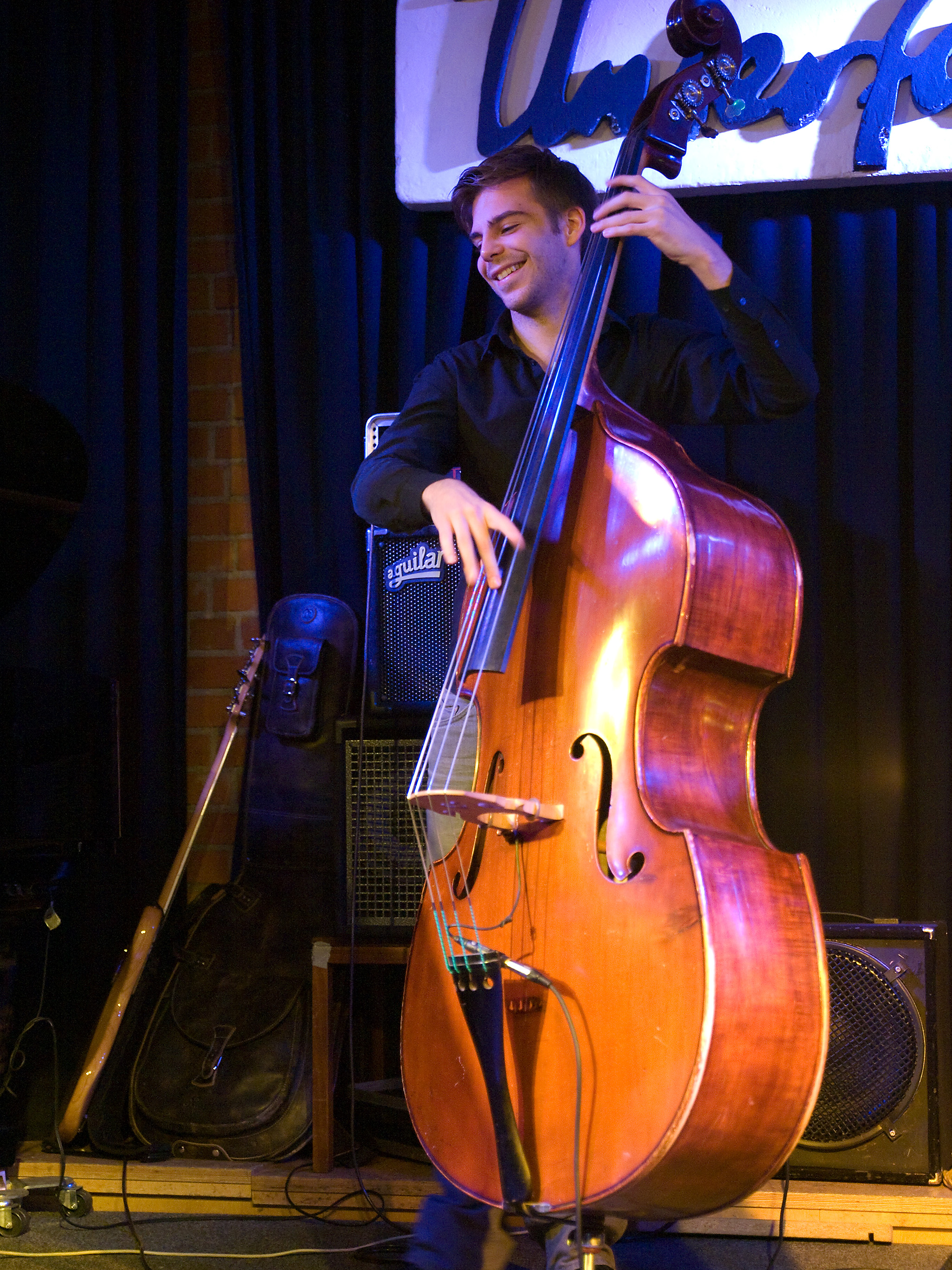 Sebastian Gieck, double bass; Picture taken in Jazz Club Unterfahrt, Munich/Bavaria